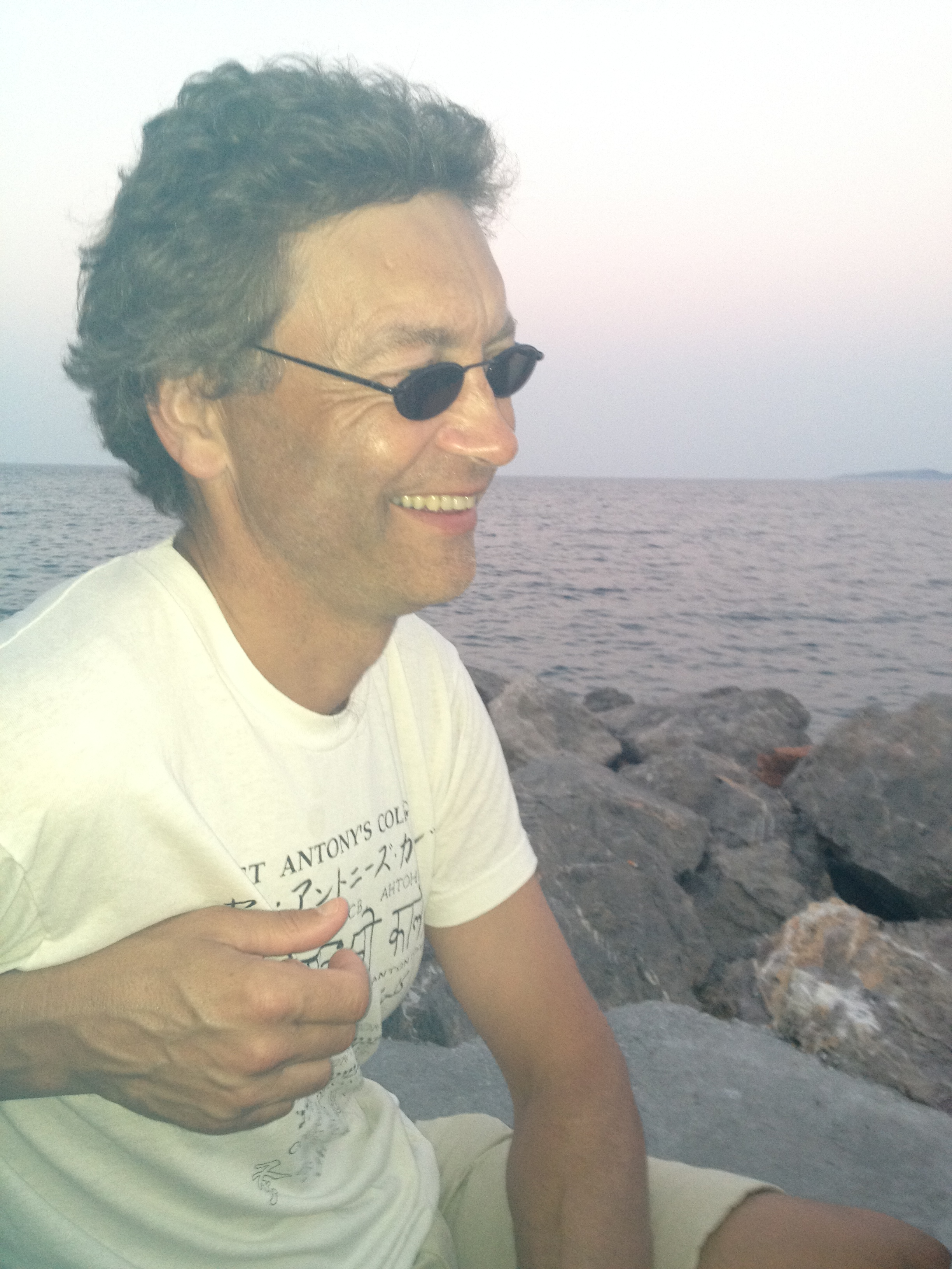 Summer